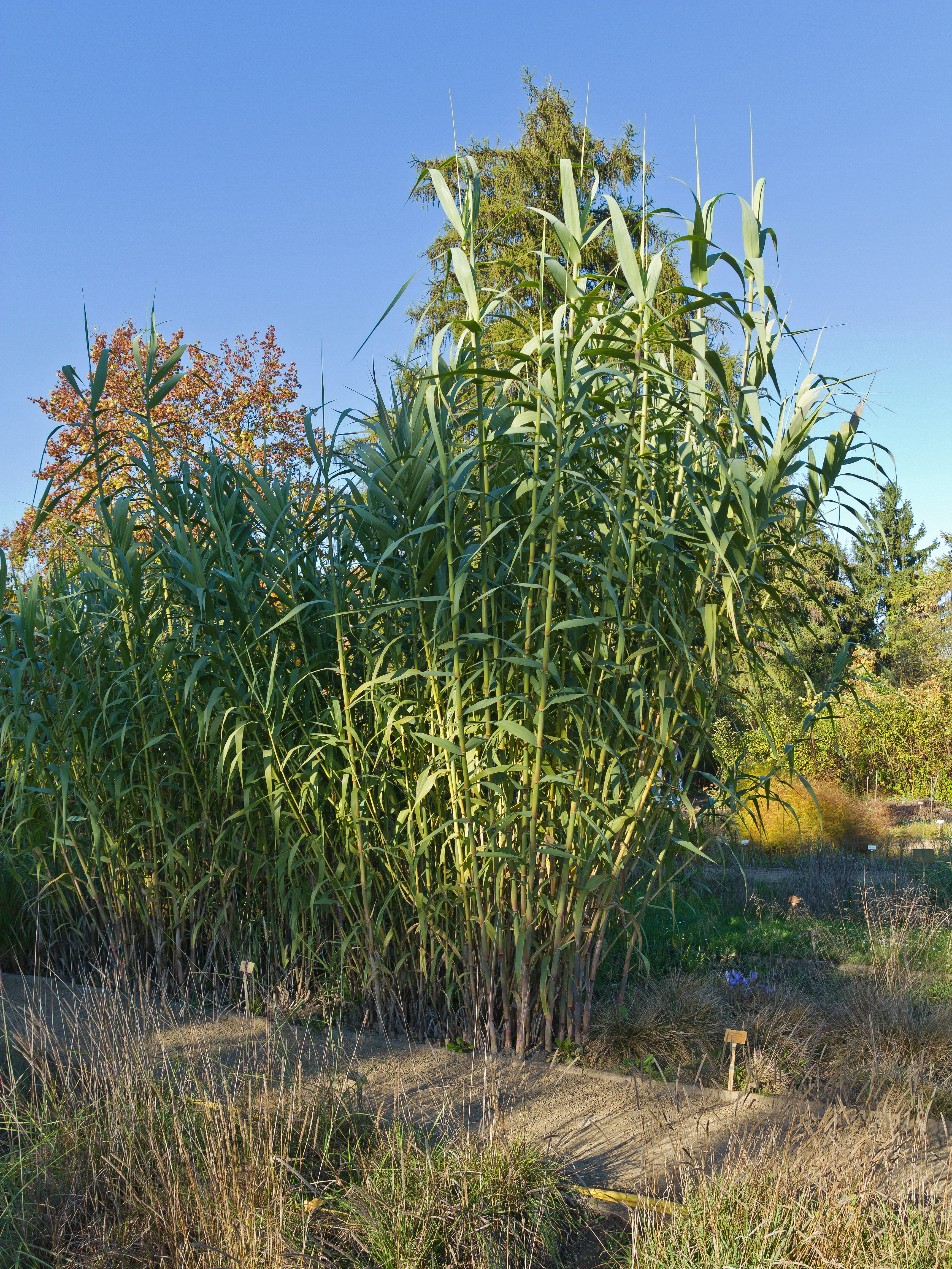 Berlin-Dahlem Botanical Garden in autumn 2014 / Arundo donax